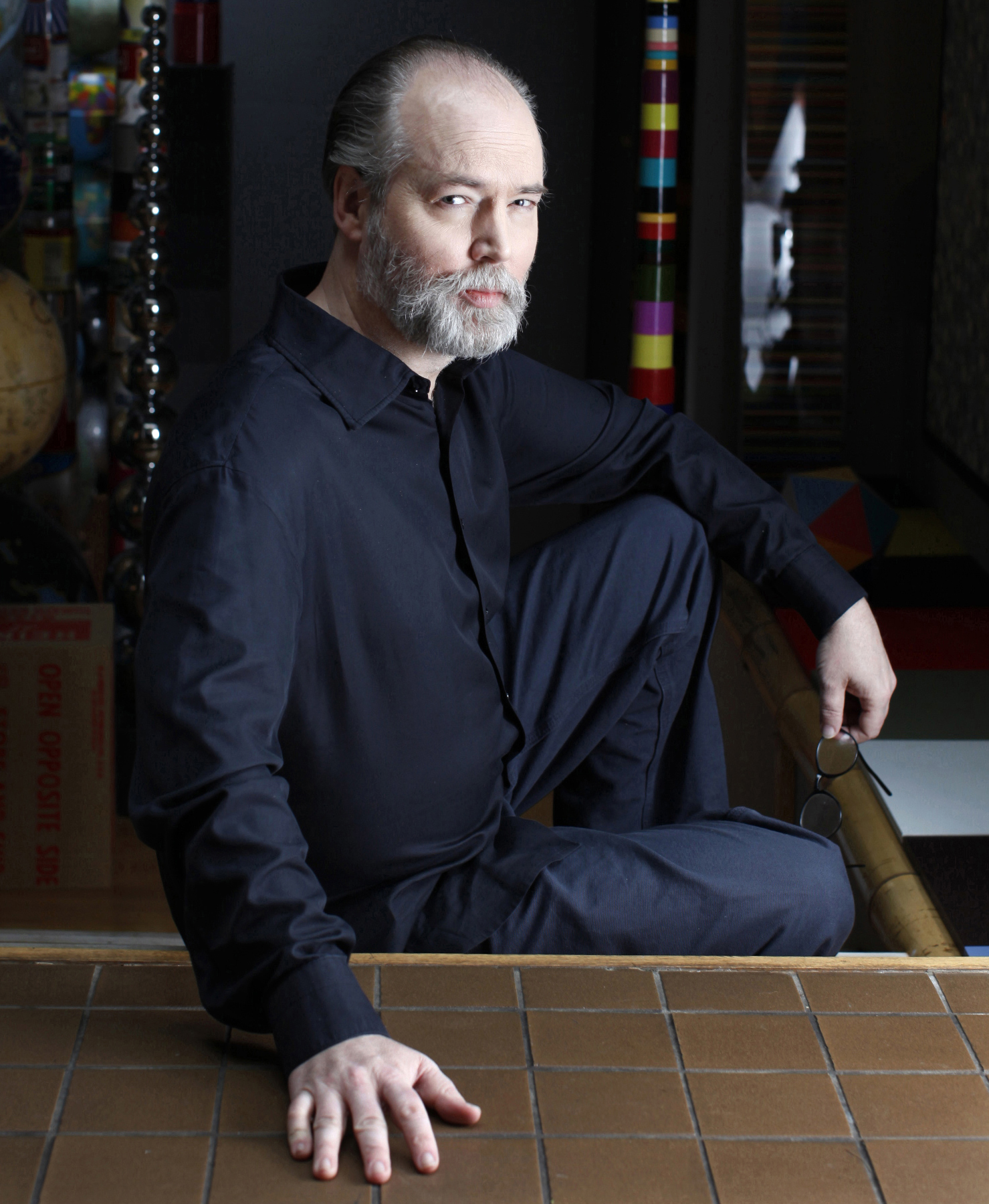 Photo of Author Douglas Coupland